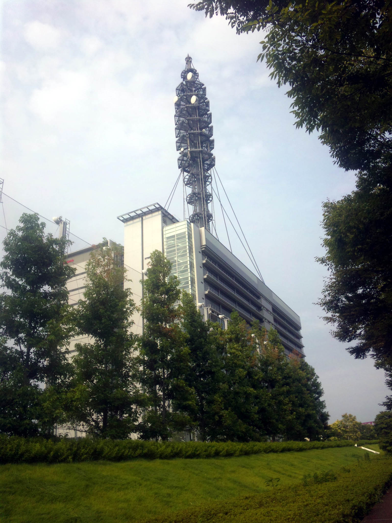 NTT DOCOMO OOSAKANANKO Buildhing